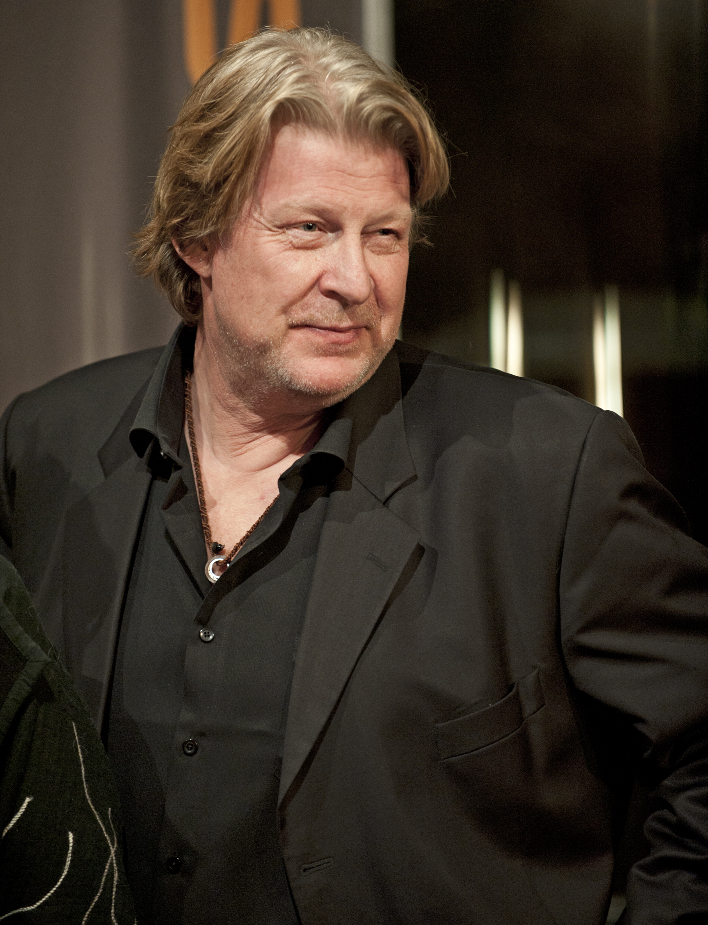 Swedish actor Rolf Lassgård at the 59th Berlin International Film Festival